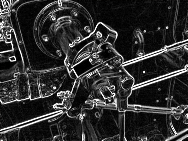 The original image was taken by me in the Museum of Science and Industry (Manchester). This was obtained using a Java edge detection program I wrote. If you want the source code leave me a message.